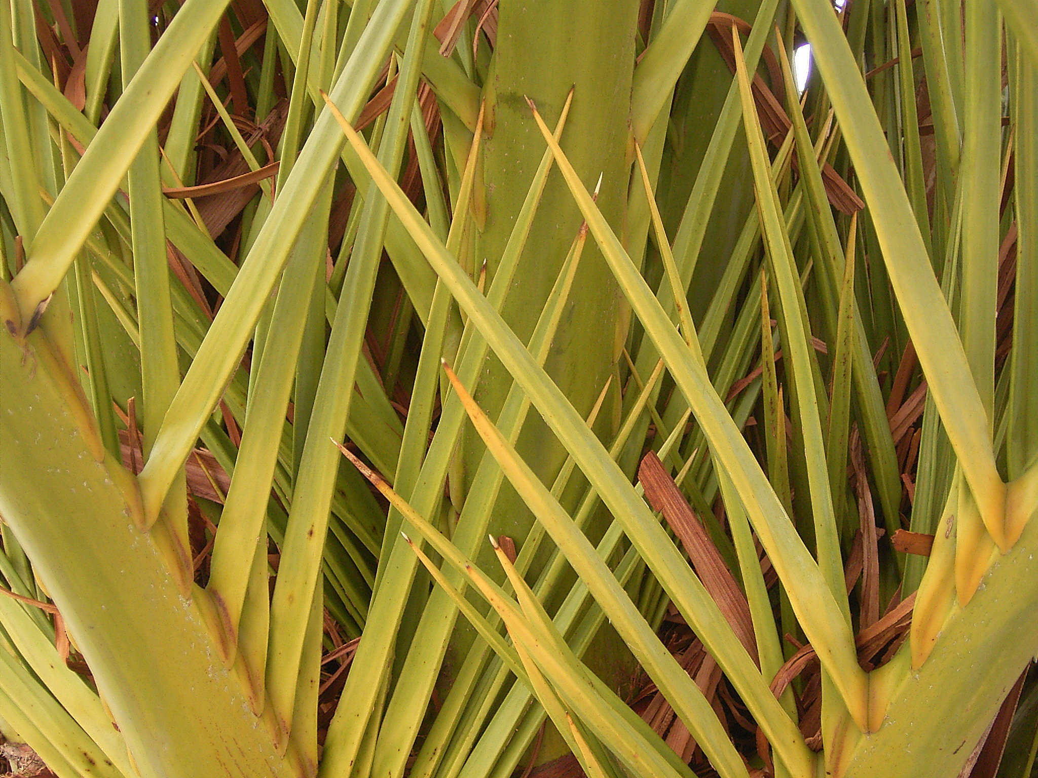 Phoenix canariensis growing in Barlovento, La Palma, Canary Islands